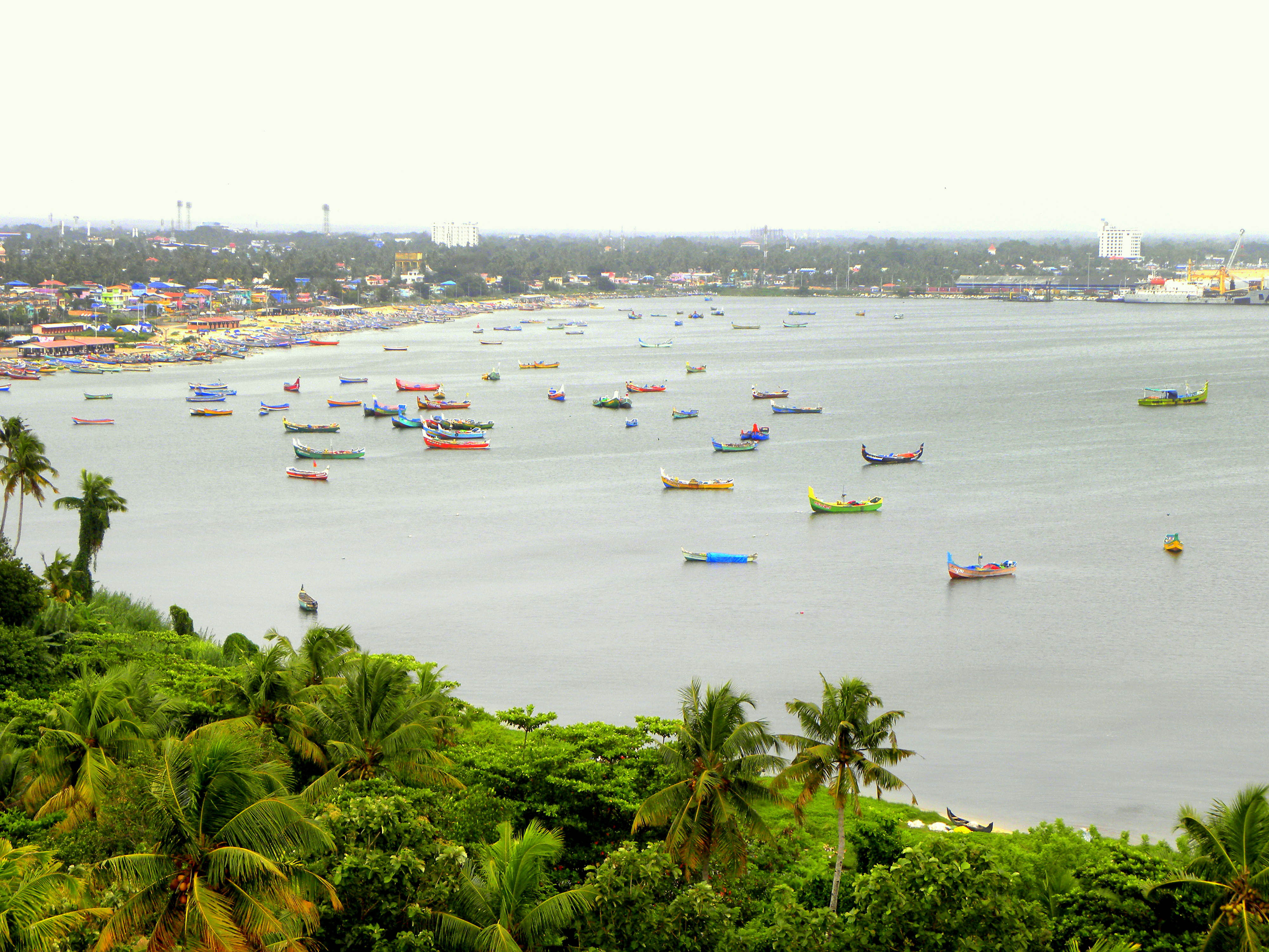 An evening view of fishing activities at Thangassery, Kollam